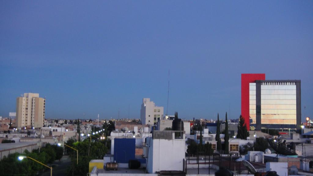 Skyline of Las Americas Av. in Aguascalientes.